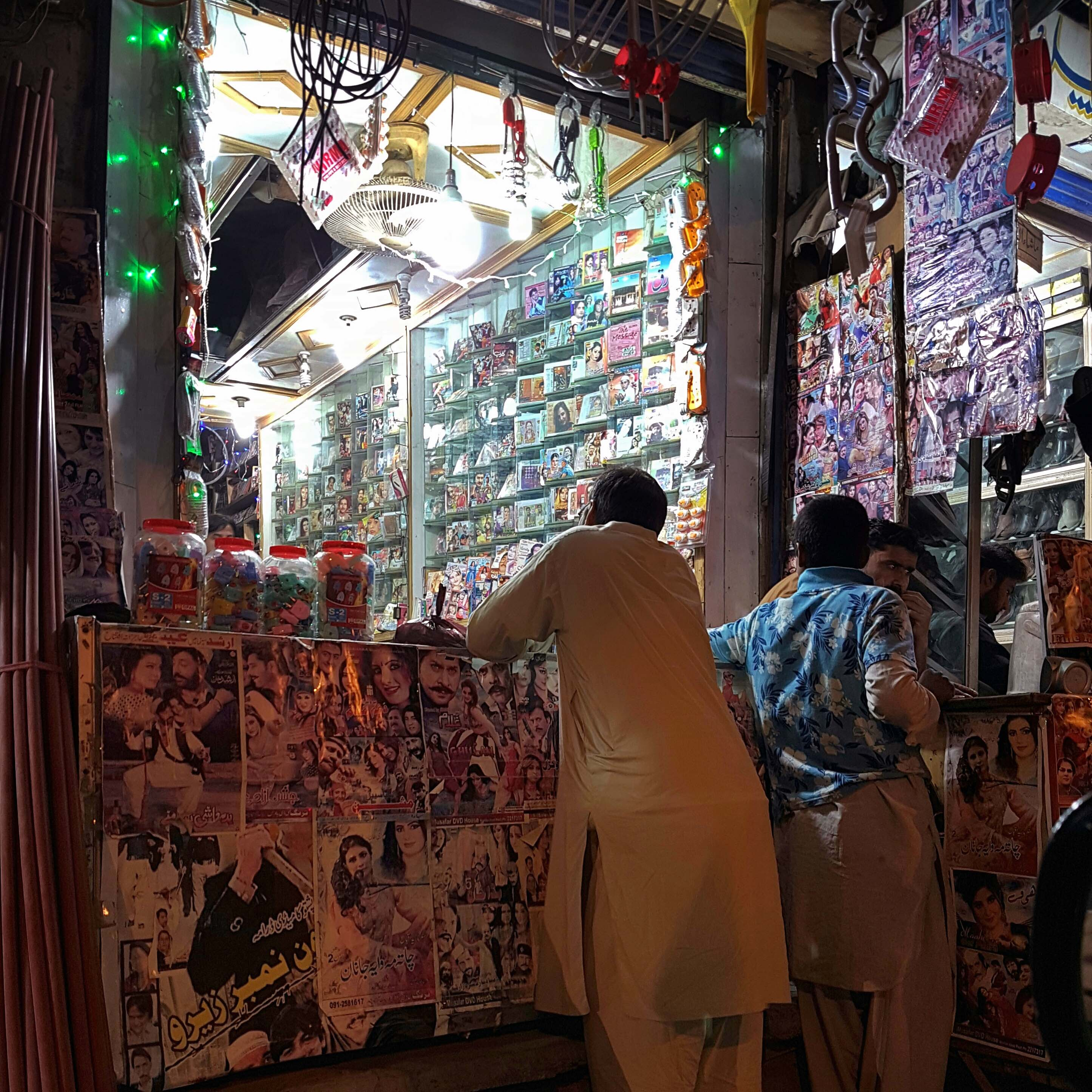 Pushto Film shop